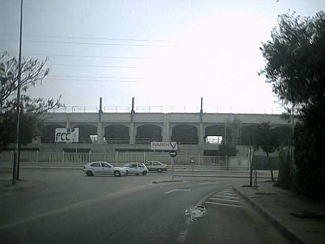 Chapin stadium in Jerez, Andalusia (Spain)